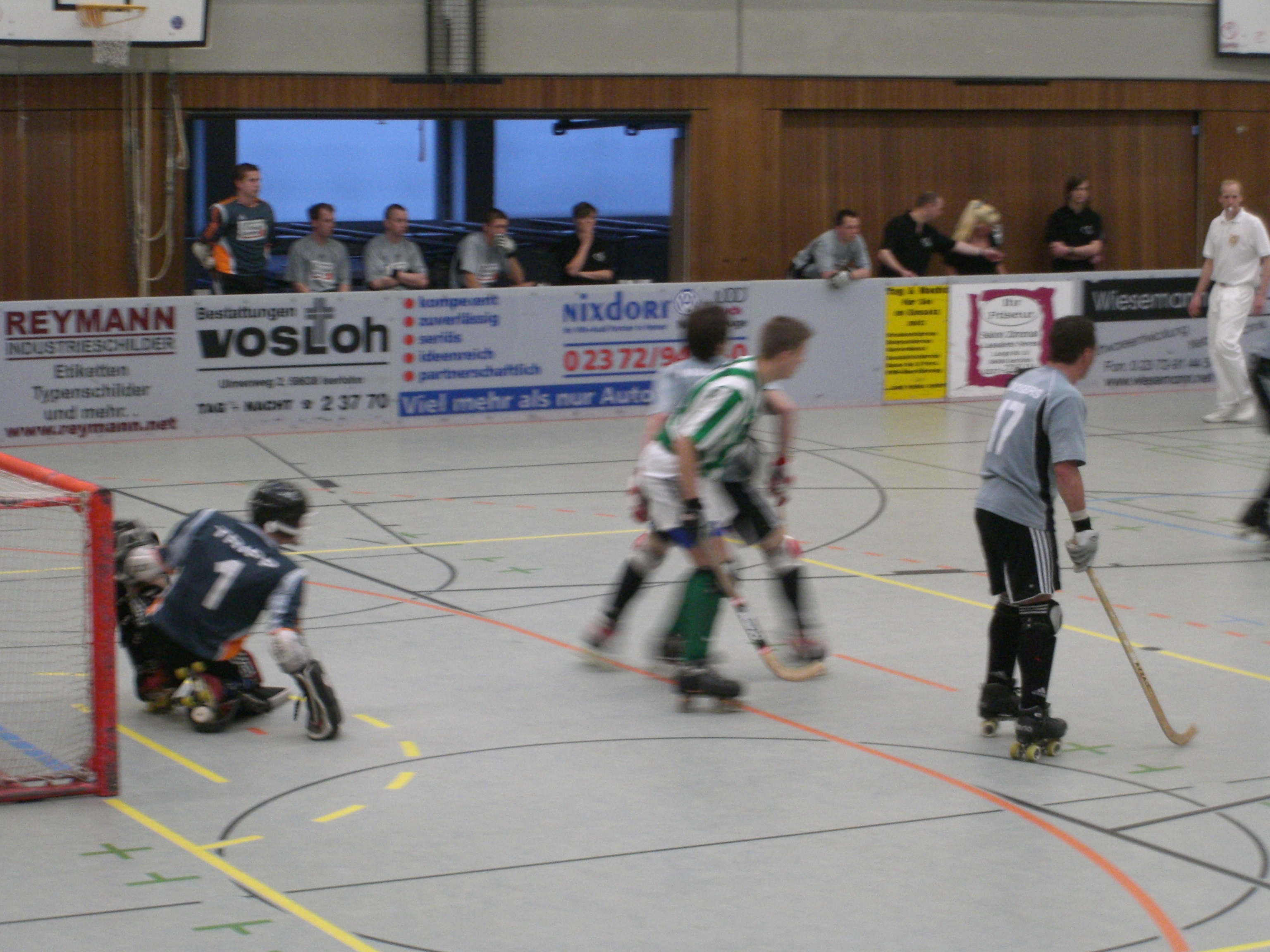 a roller-hockey game in Iserlohn, Germany (play-off final 2006)